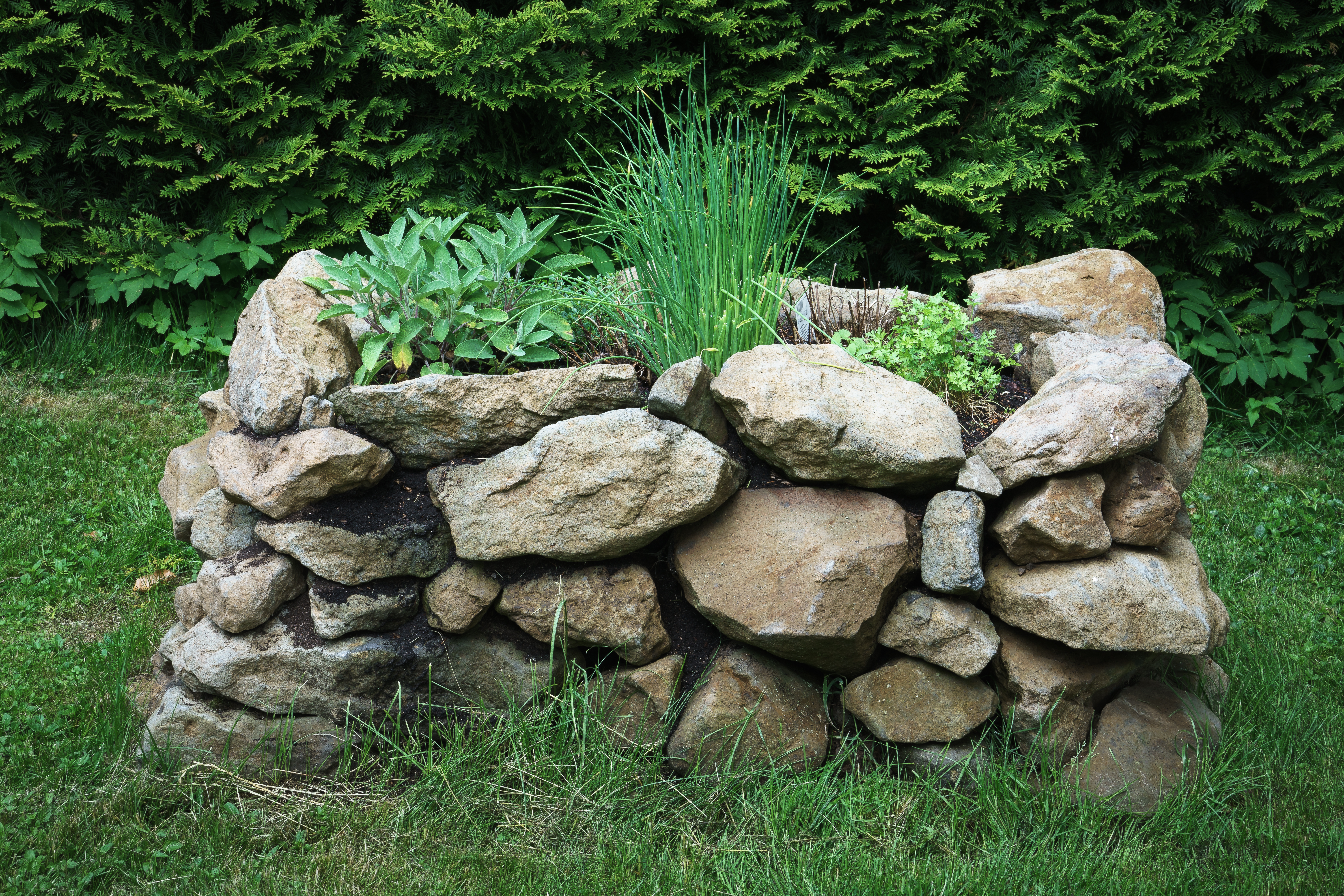 Raised garden bed with natural stones of Salvia (Salvia), Chives (Allium schoenoprasum), Parsley (Petroselinum crispum) in the Vogelsberg